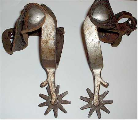 Old working cowboy spurs made by Crockett. Western-style cowboy spurs with rowels, chap guards and buttons for the spur straps.